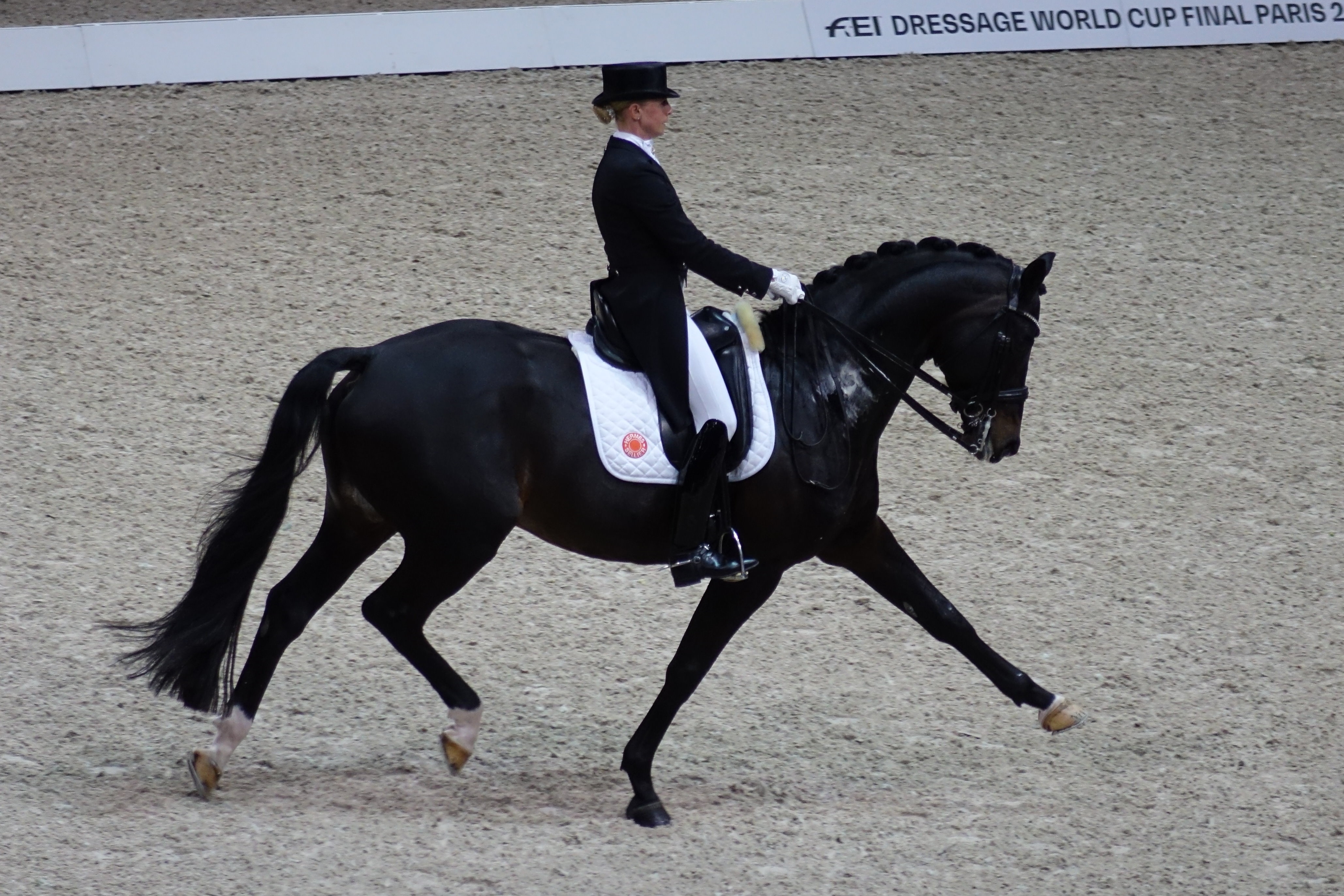 FEI WORLD CUP DRESSAGE FINALS PARIS 2018 Jessica von Bredow-Werndl & Unee BB (KWPN)